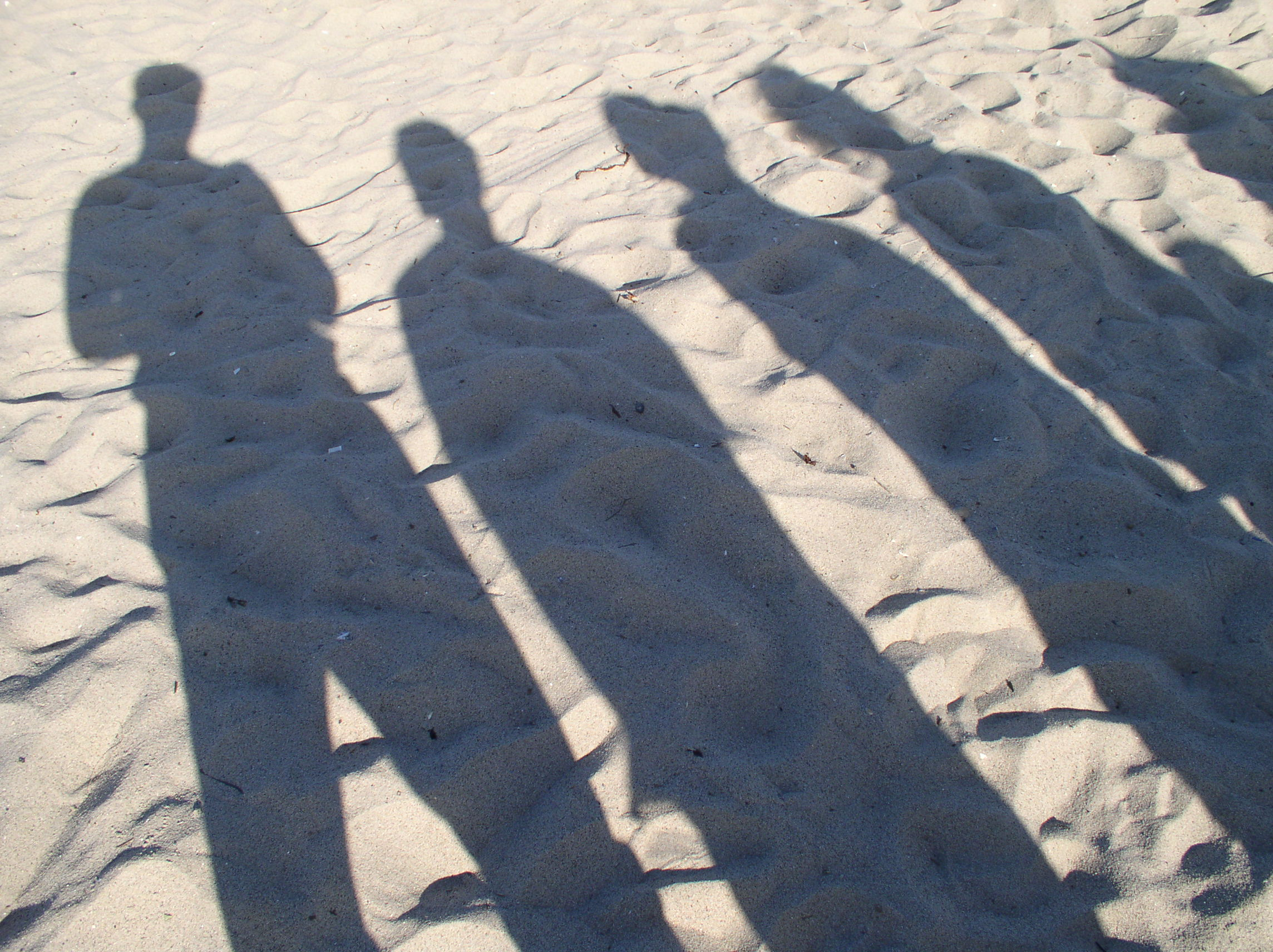 I took this photo in March 2003